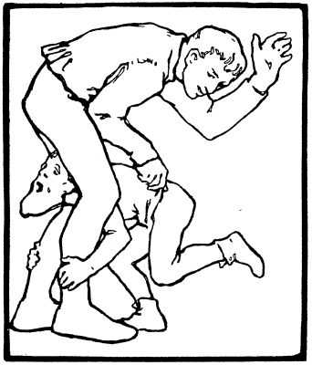 Illustration by Otto Ubbelohde to the fairy tale The Gnome